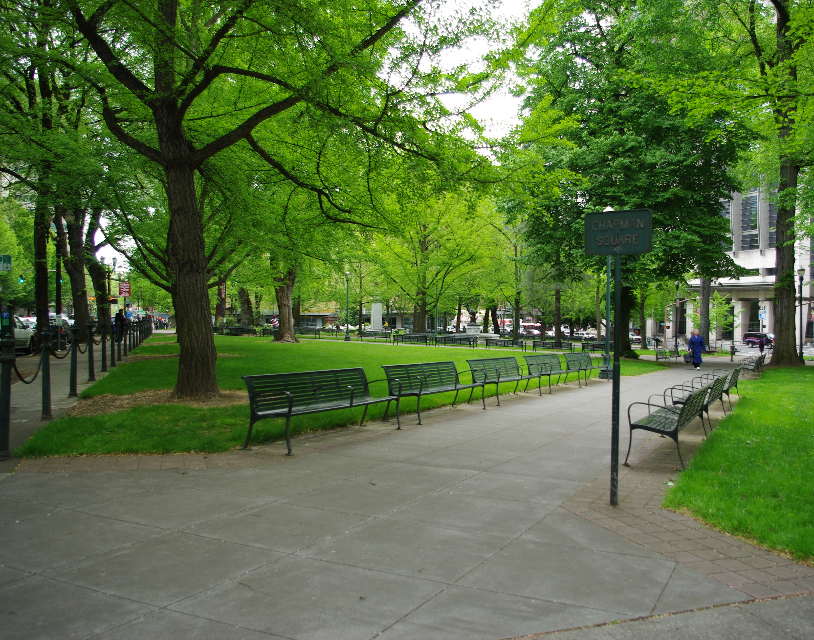 Chapman Square in Downtown Portland, Oregon.